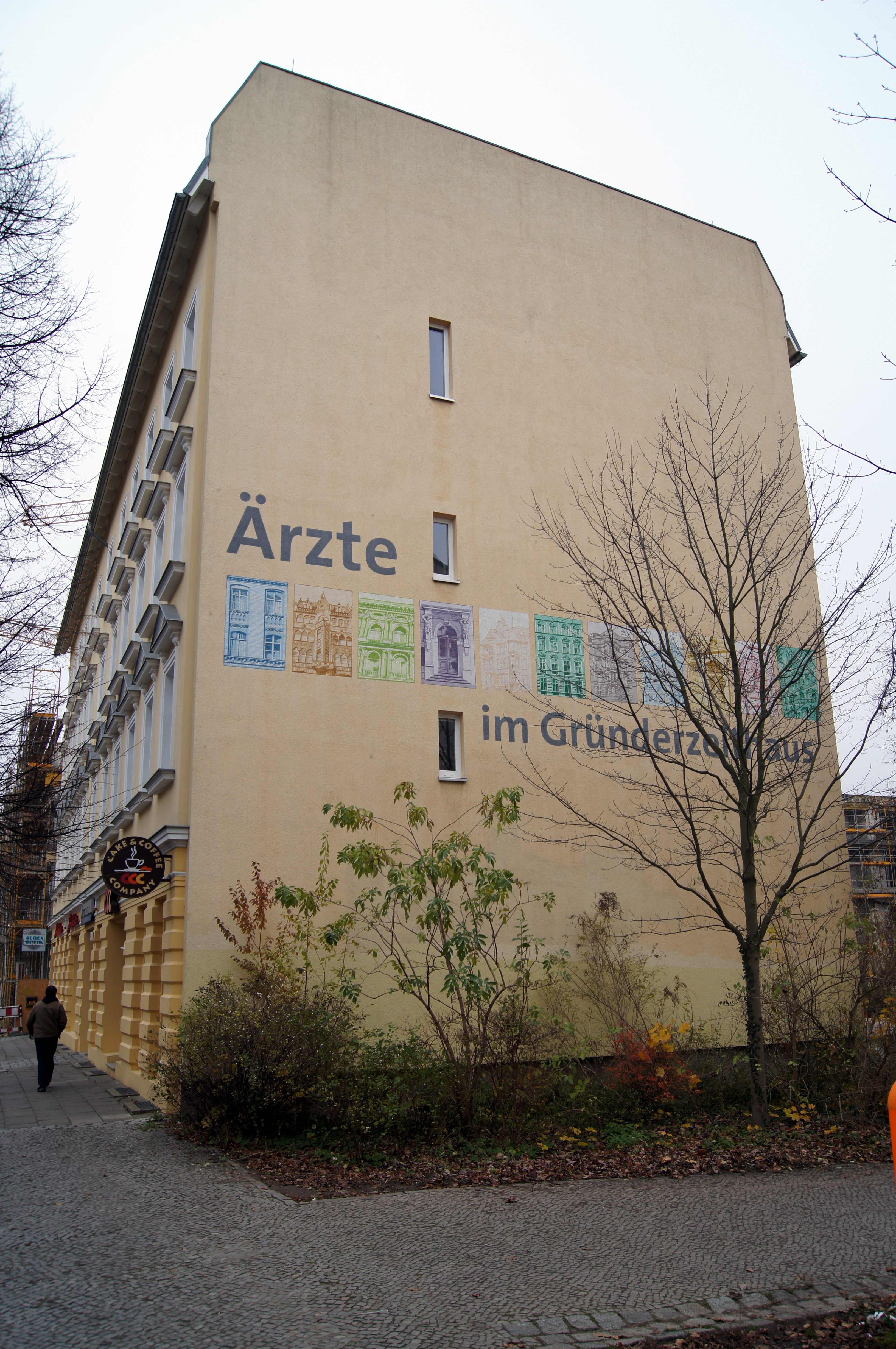 Graffiti at the Healt Center in the Gründerzeit-House at Schönstr. 9 in Berlin-Weissensee, Germany